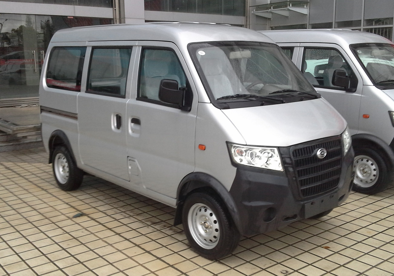 Gonow Xingwang photographed in Shanghai, China.